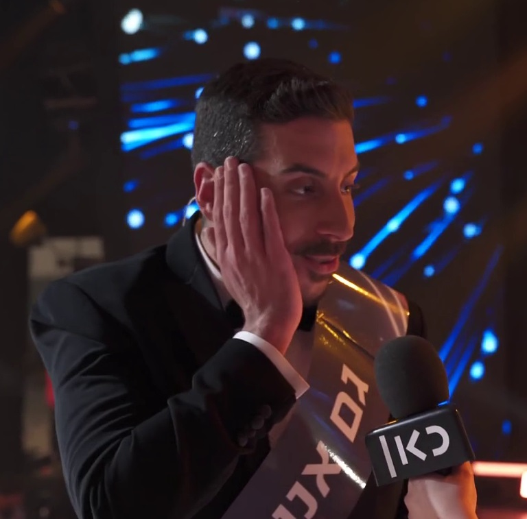 Kobi Marimi